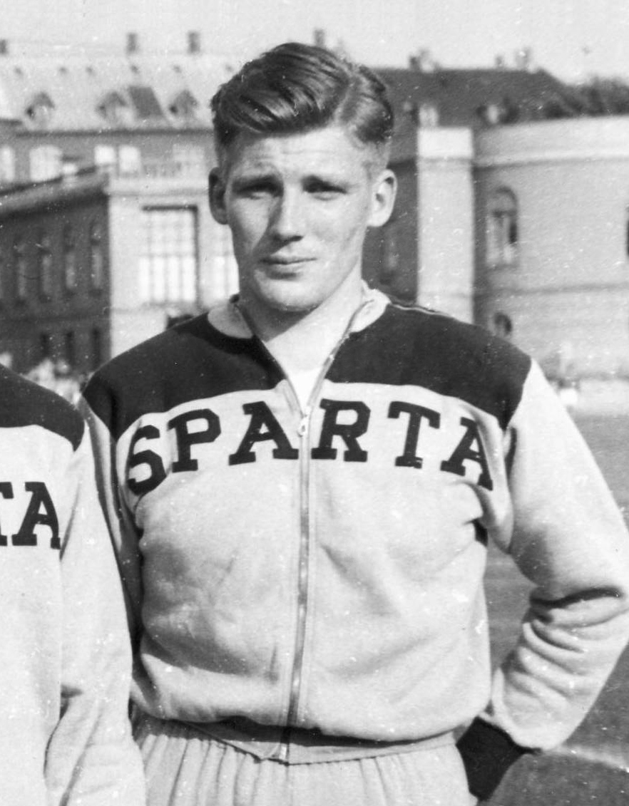 Danish 4×100 m champions at the Østerbro Stadion: Benny Schmidt.